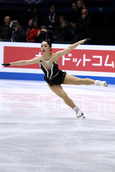 Photos – World Championships 2018 – Ladies (Wakaba HIGUCHI JPN – Silver Medal)